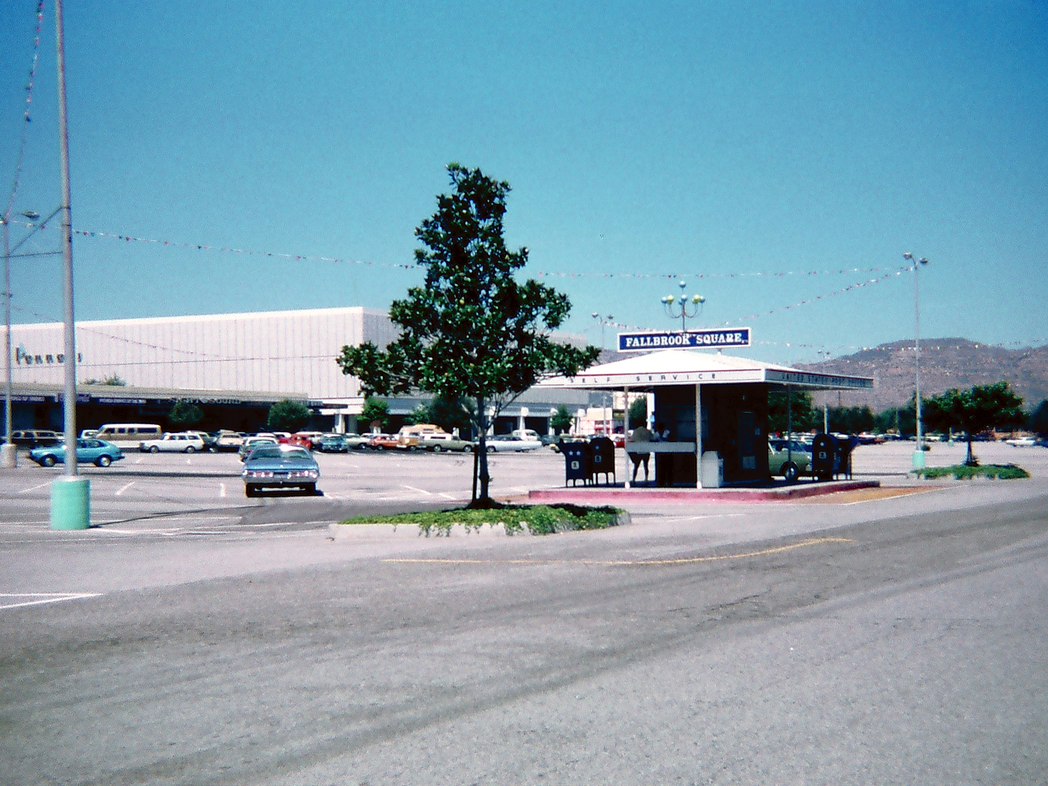 Fallbrook Square shopping center (1978) — in West Hills, western San Fernando Valley, Los Angeles, California. With former drive-up self-service post office in parking lot.